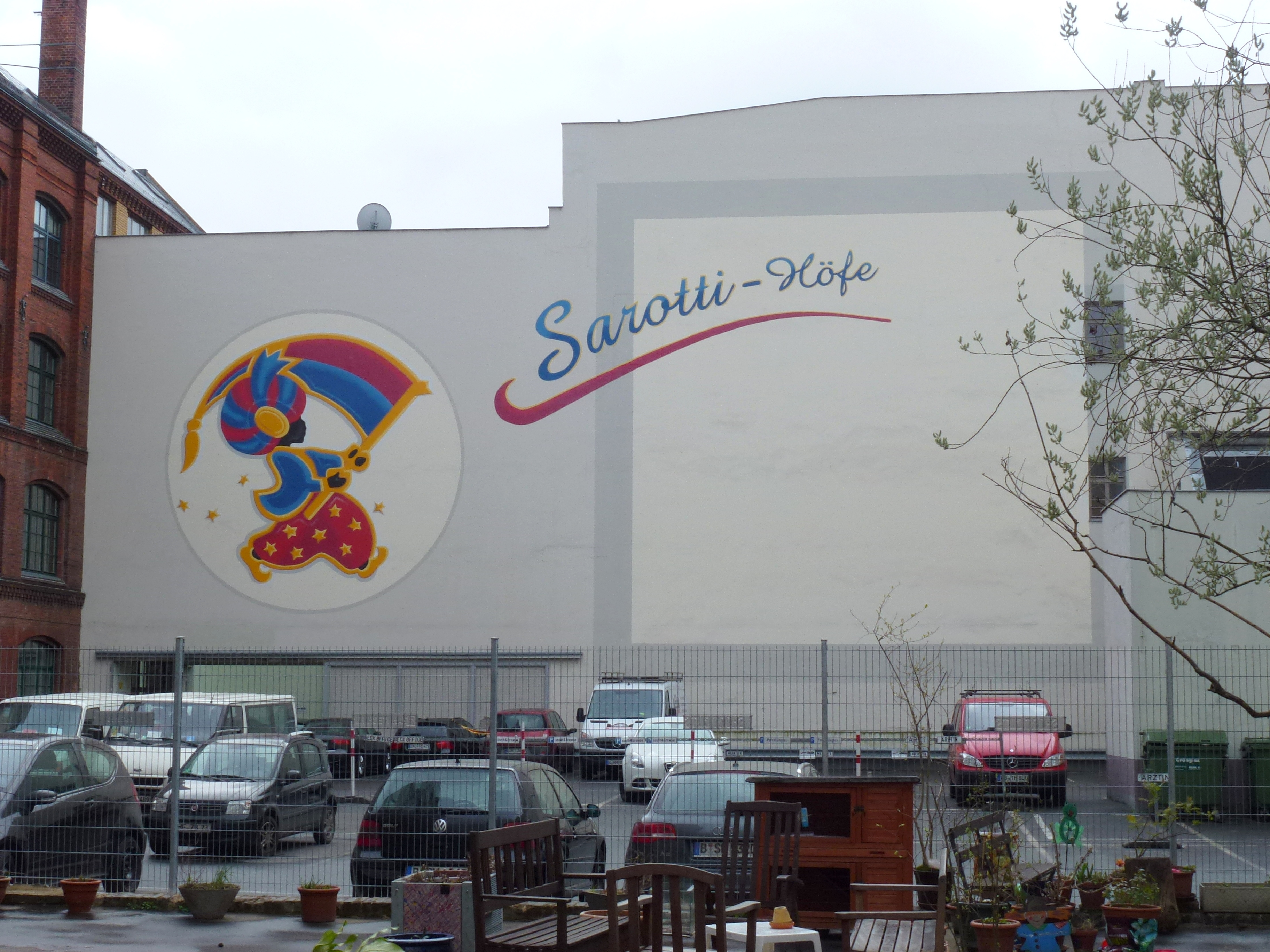 Berlin-Kreuzberg Sarotti-Höfe